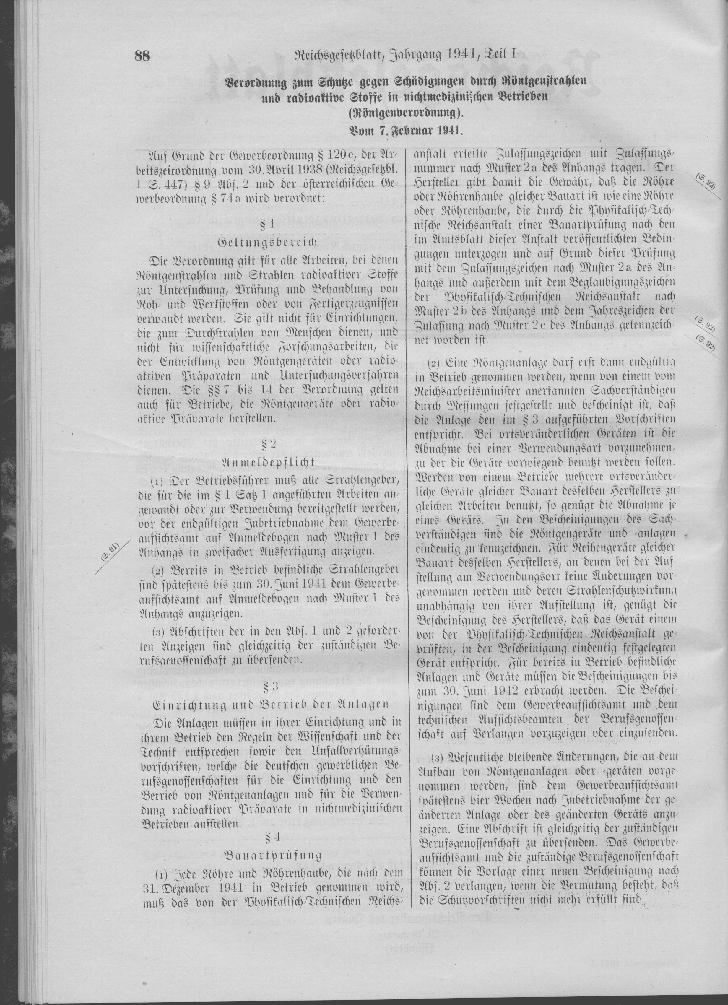 Scan from the Imperial Law Gazette of Germany, 1941, part 1